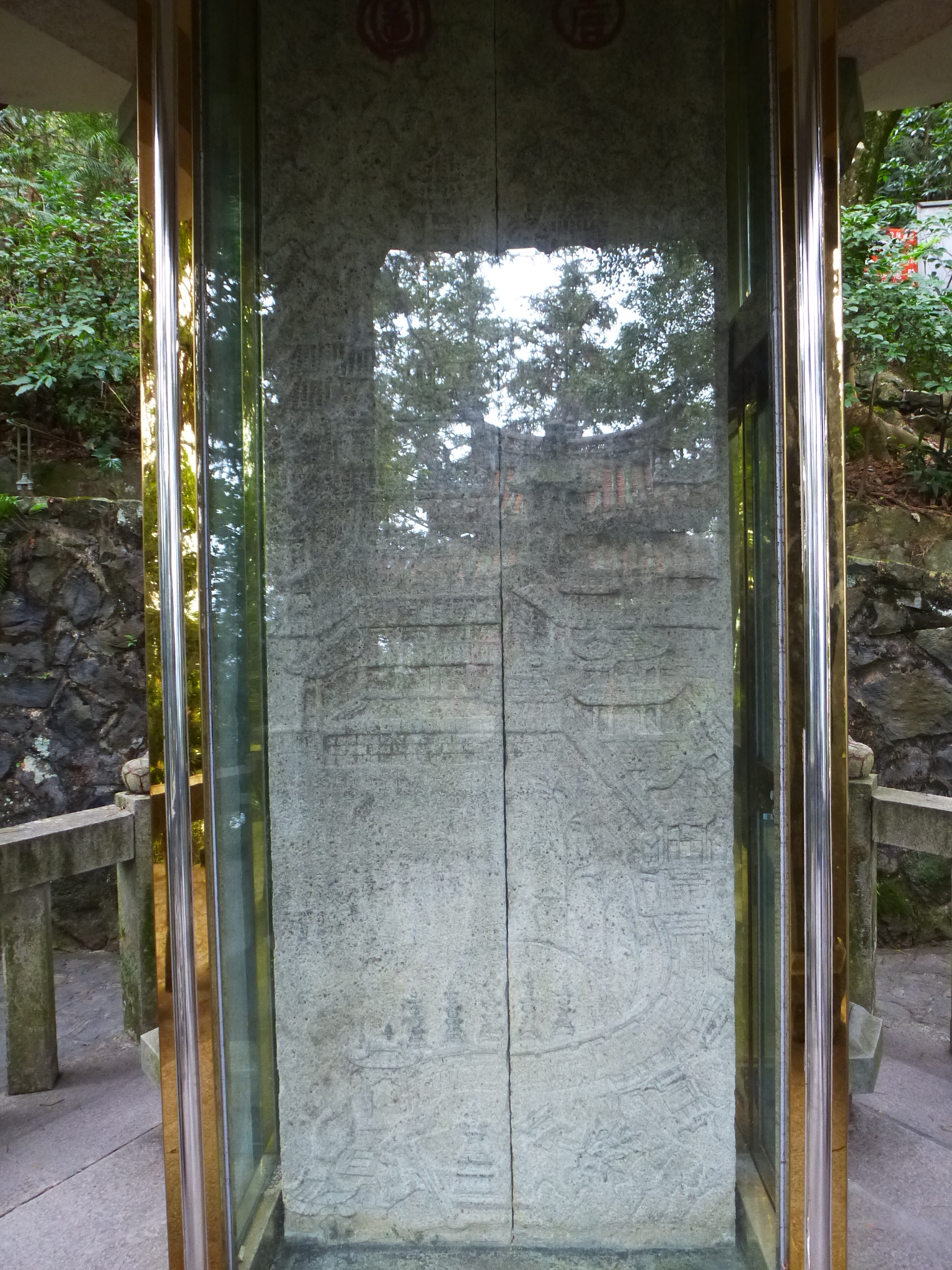 南宋“岩图碑”